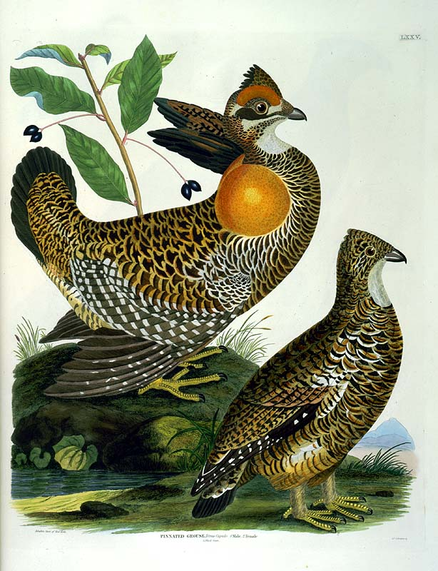 Entitled "Pinnated Grouse" (Tetrao Cupido) shows a male and female From Illustrations of the American ornithology of Alexander Wilson and Charles Lucien Bonaparte Prince of Musignano With the addition of numerous recently discovered species and representations of the whole sylvae of North America (1835) by Thomas Brown and illustration by James Turvey.